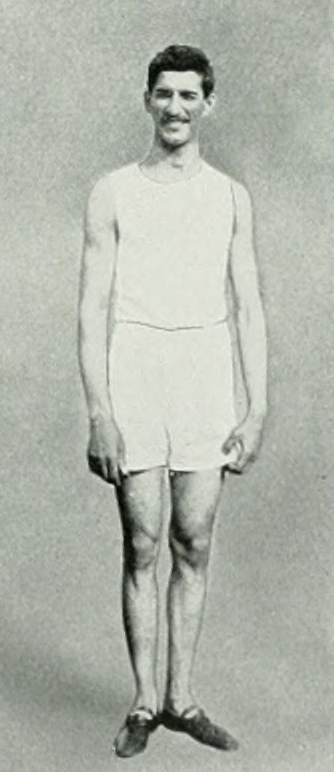 Konstantinos Tsiklitiras at the 1912 Summer Olympics.